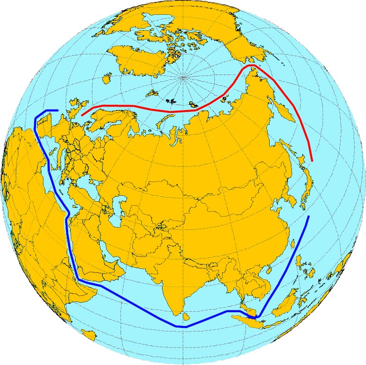 Northern Sea Route (red) and alternative route through Suez Canal (blue).